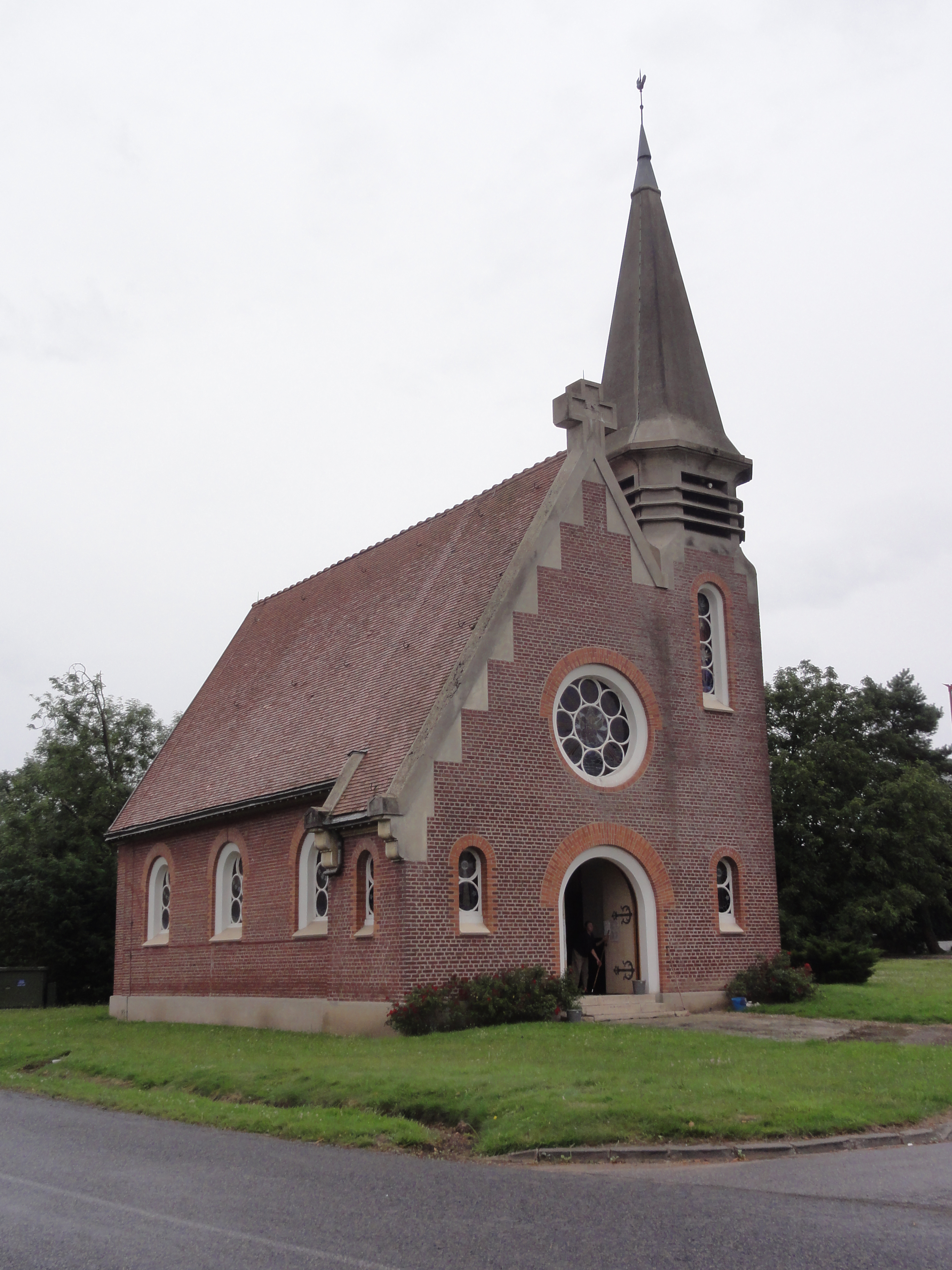 Gibercourt (Aisne) église Saint-Quentin